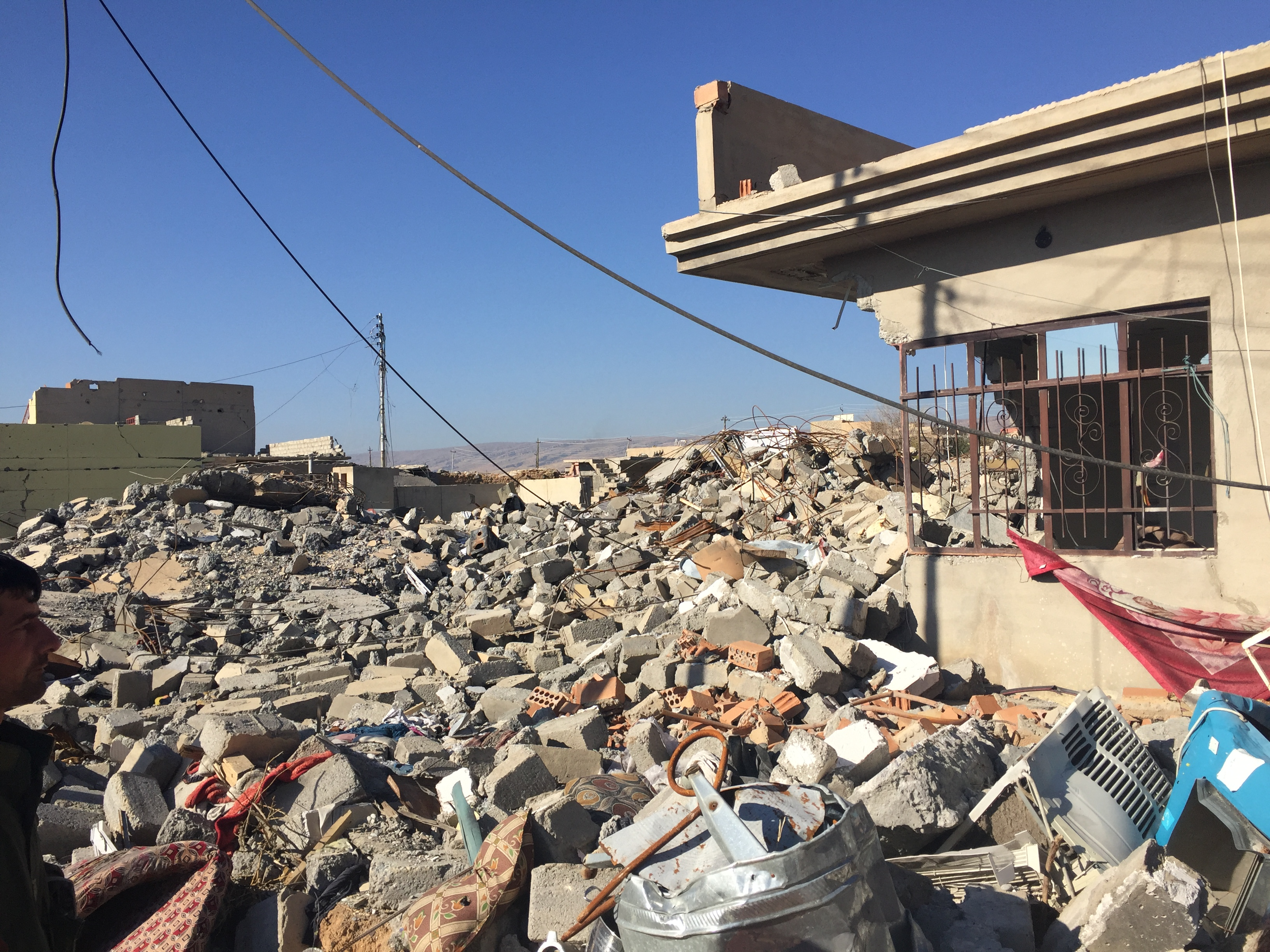 Destroyed city of Shingal, after the so-called "Islamic State" had been driven out.